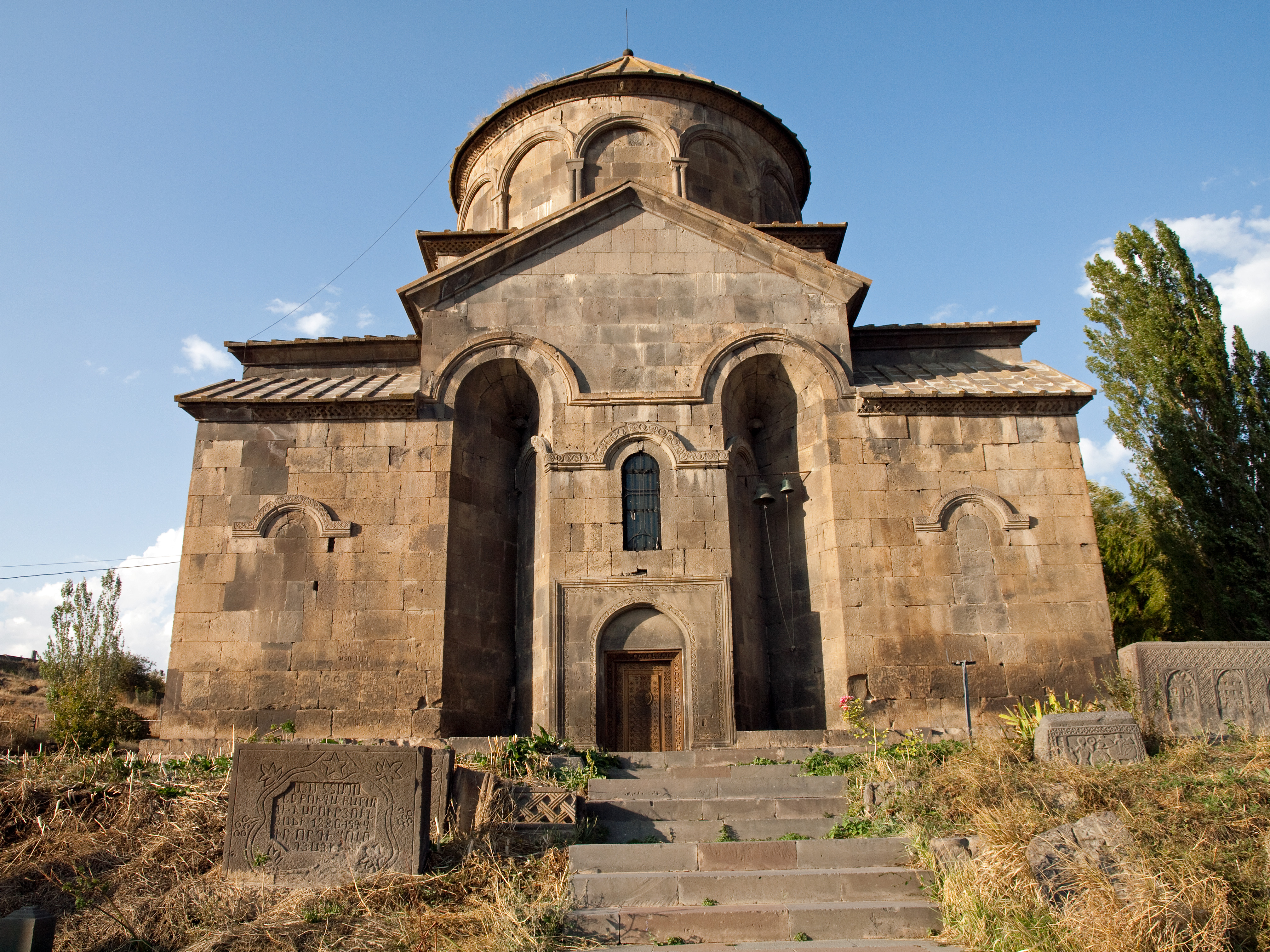 Saint John (Surb Hovhannes) church in Sisian, Armenia, also known as Syuni Vank, Sisavank, Sisavan and Black church. The former name of the Church was Saint Gregory the Illuminator (Surb Grigor Lusavorich), built in 691 AD.